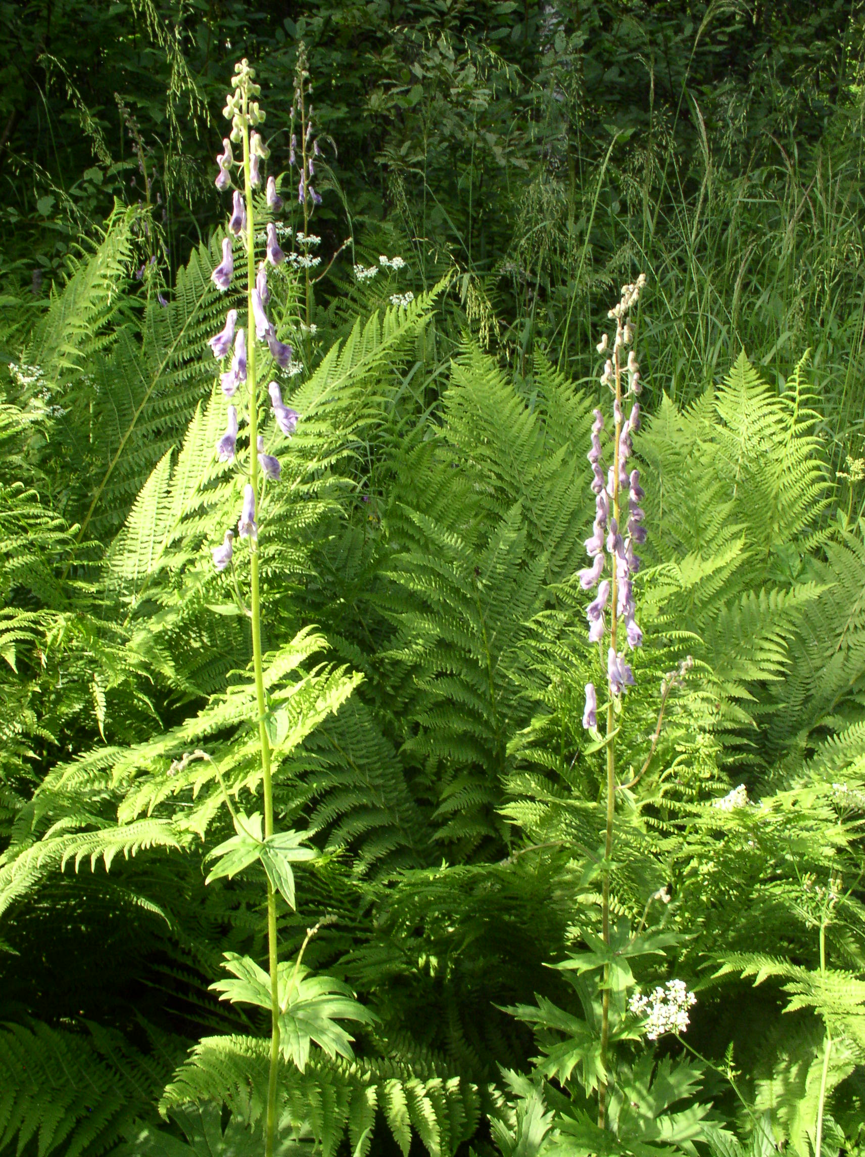 Aconitum lycoctonum (or Aconitum septentrionale) stems in Kitee, Finland.